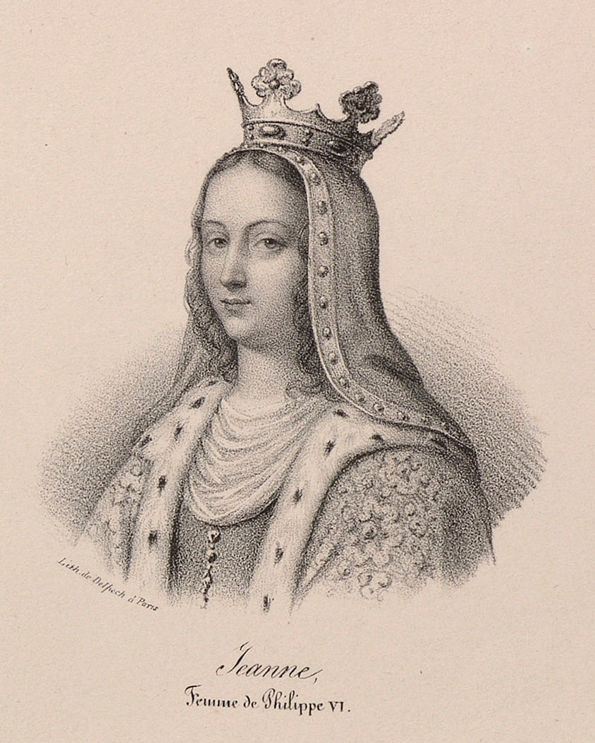 Joan the Lame (1293-1349), wife of Philip VI of France